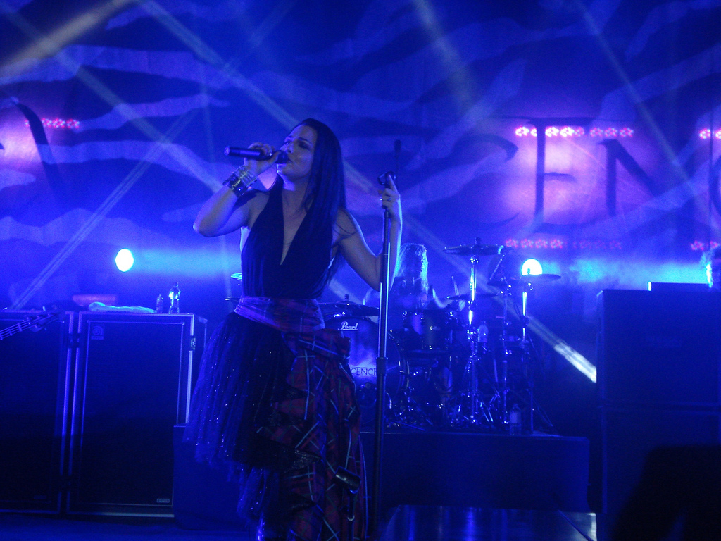 Amy Lee performing in concert in 2011